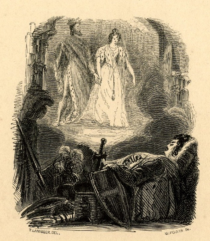 Illustration from The Romance of History (1833) by Henry Neele. A knight lies asleep and has a vision, of a king leading by the hand a veiled young woman.